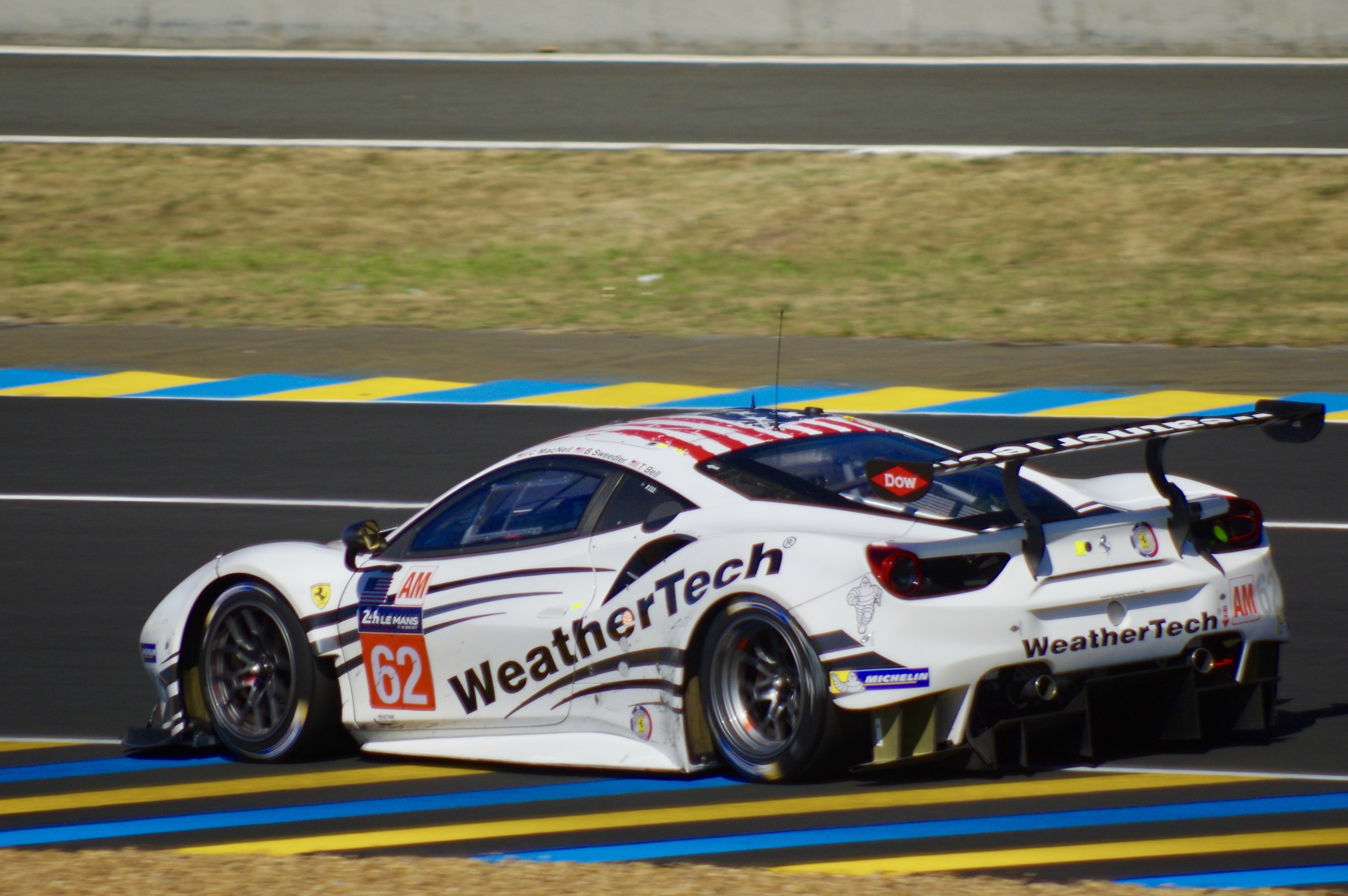 2017 24 Hours of Le Mans Scuderia Corsa's Ferrari 488 GTE Driven by Cooper MacNeil, Bill Sweedler and Townsend Bell